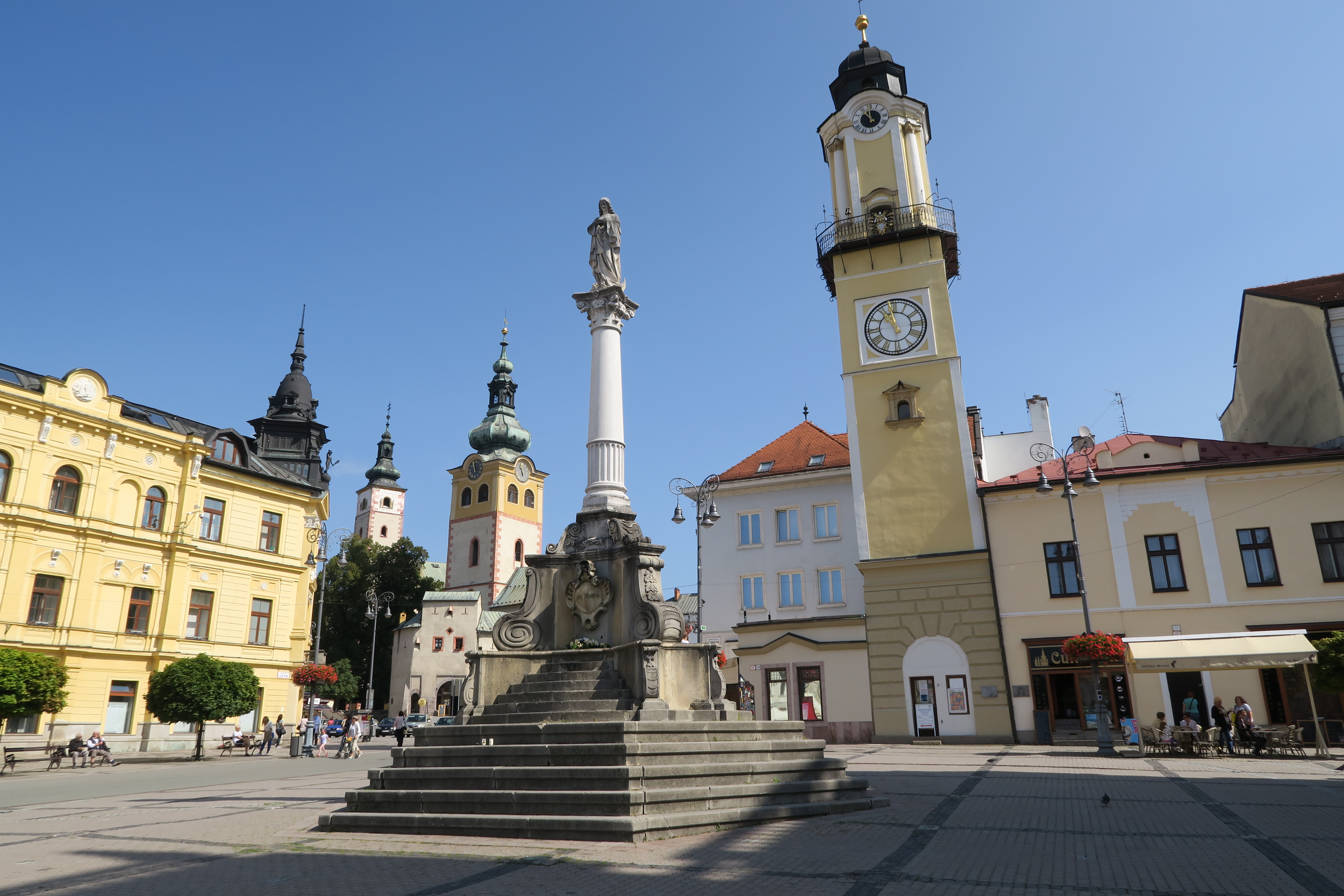 Mary Column Banská Bystrica